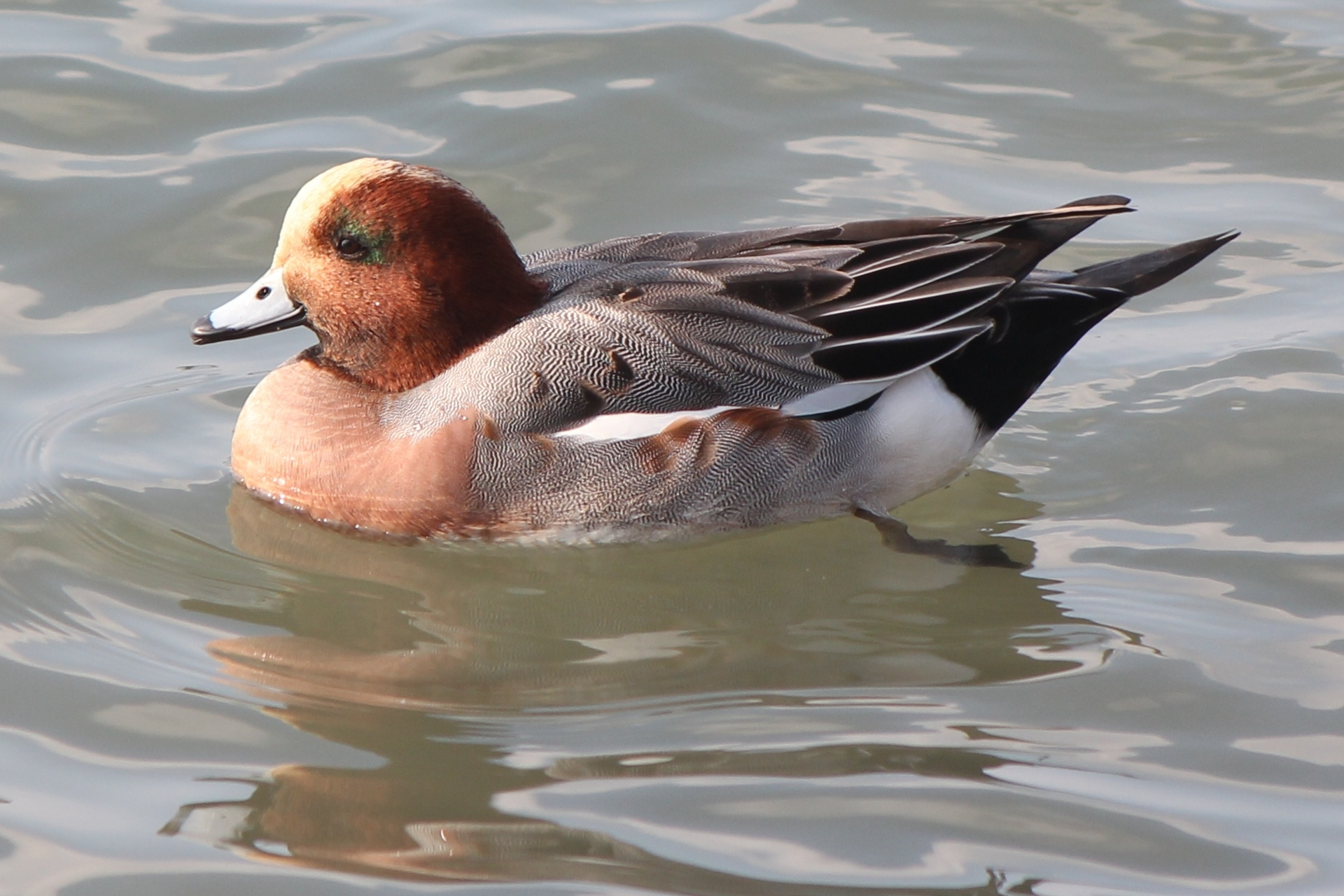 Eurasian Wigeon (Anas penelope), male, in Fujimae-higata, Nagoya, Aichi prefecture, Japan.